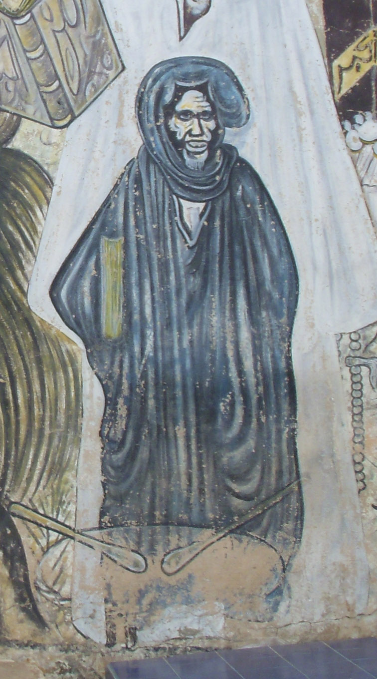 Detail of mural (taken from Image:Mouride Mural DSCN1065.jpg) on a wall in Dakar, Senegal, Ibrahima Fall, leader of the Mouride Sufi sect.